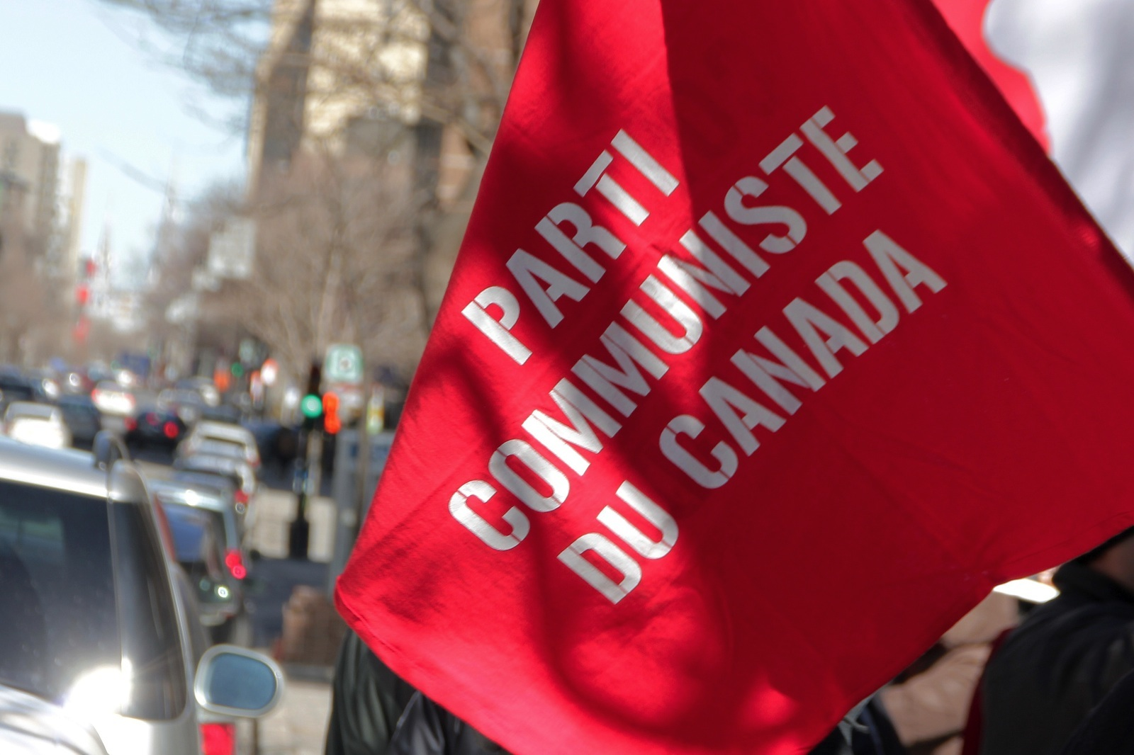 Drapeau du Parti commnuiste du Canada à la Manifestation Montréal pour la Paix du 19 mars 2016